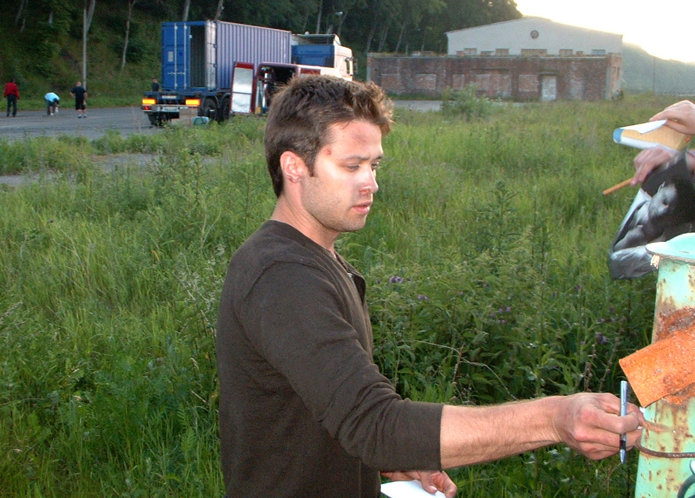 Maciej Zakoscielny (b. 1980), Polish actor close-up during an autograph signing at the shot of Polish crime-series Kryminalni. Photo taken at Babie Doly, district of the Polish city Gdynia.